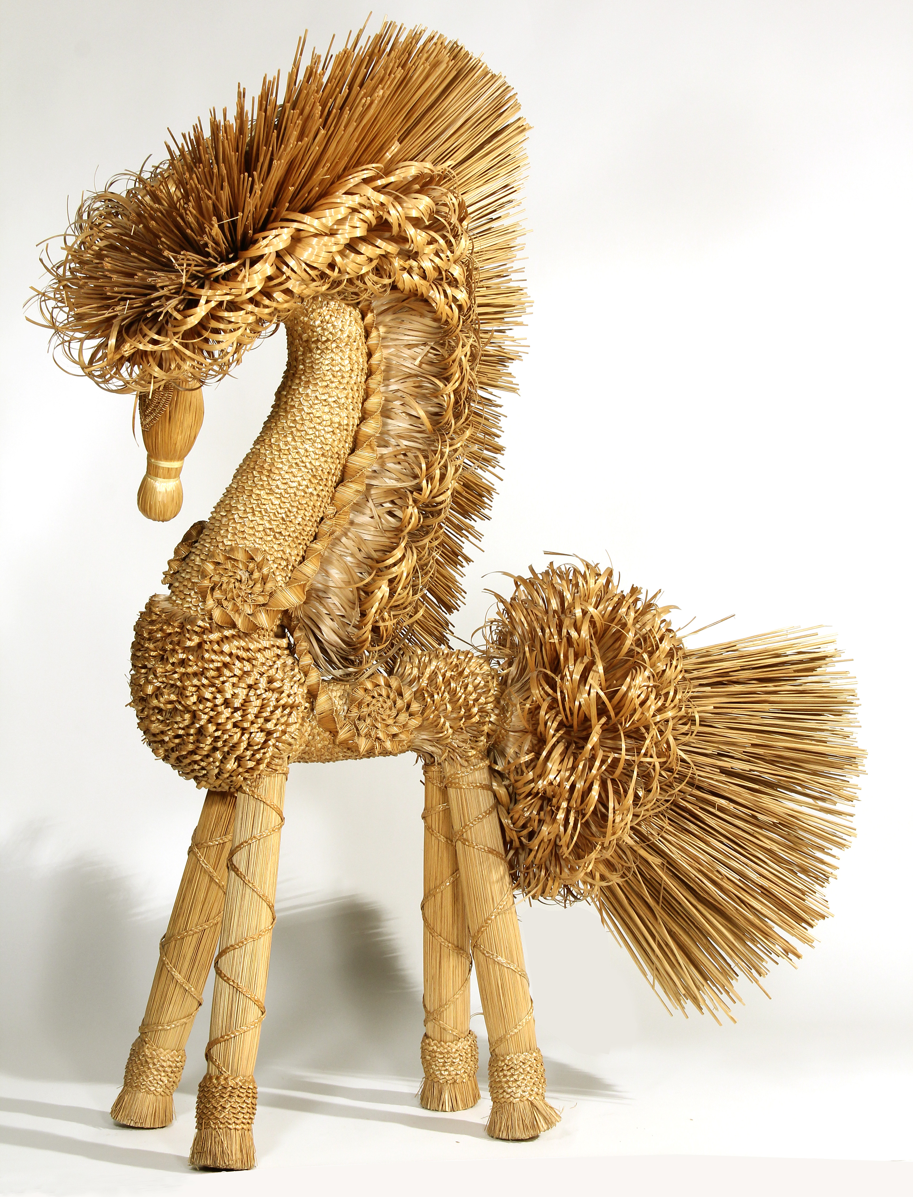 A toy of the belarusian folk art: A horse made of straw, XIXth century. Location: Museum of Belarusian Folk Art (Minsk city, Belarus)